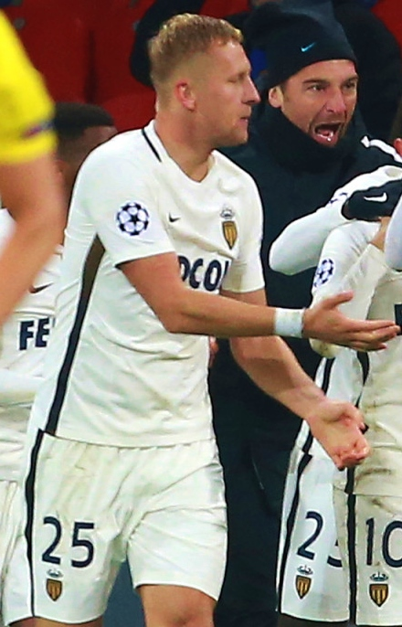 Kamil Glik